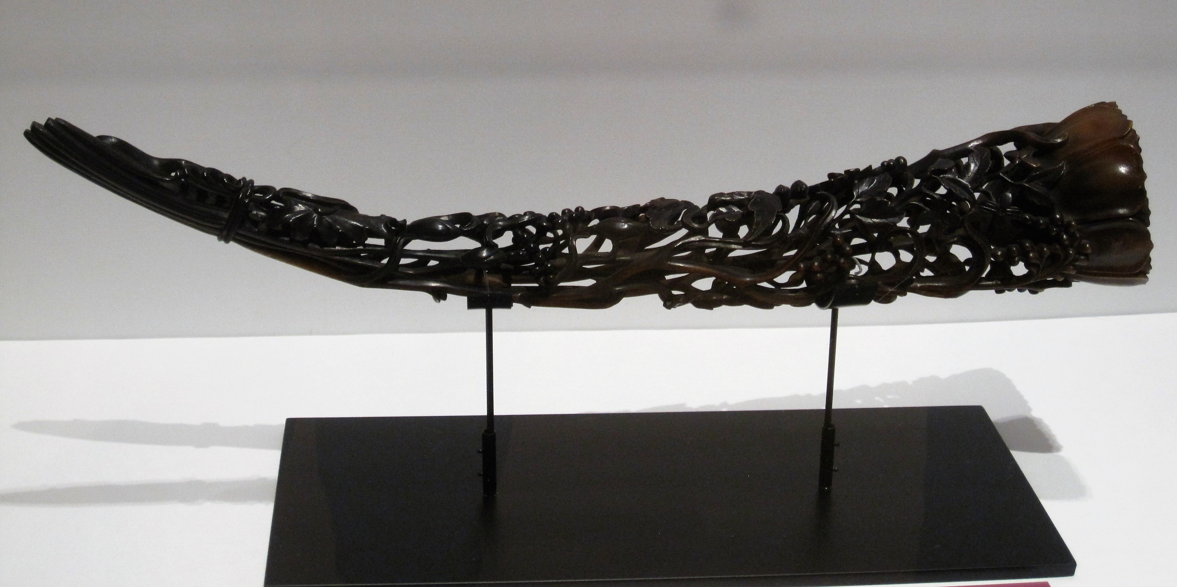 A rhinoceros horn libation cup with design of lotus flower and grape made in Qing dynasty (18th century), the collection of Tokyo National Museum.